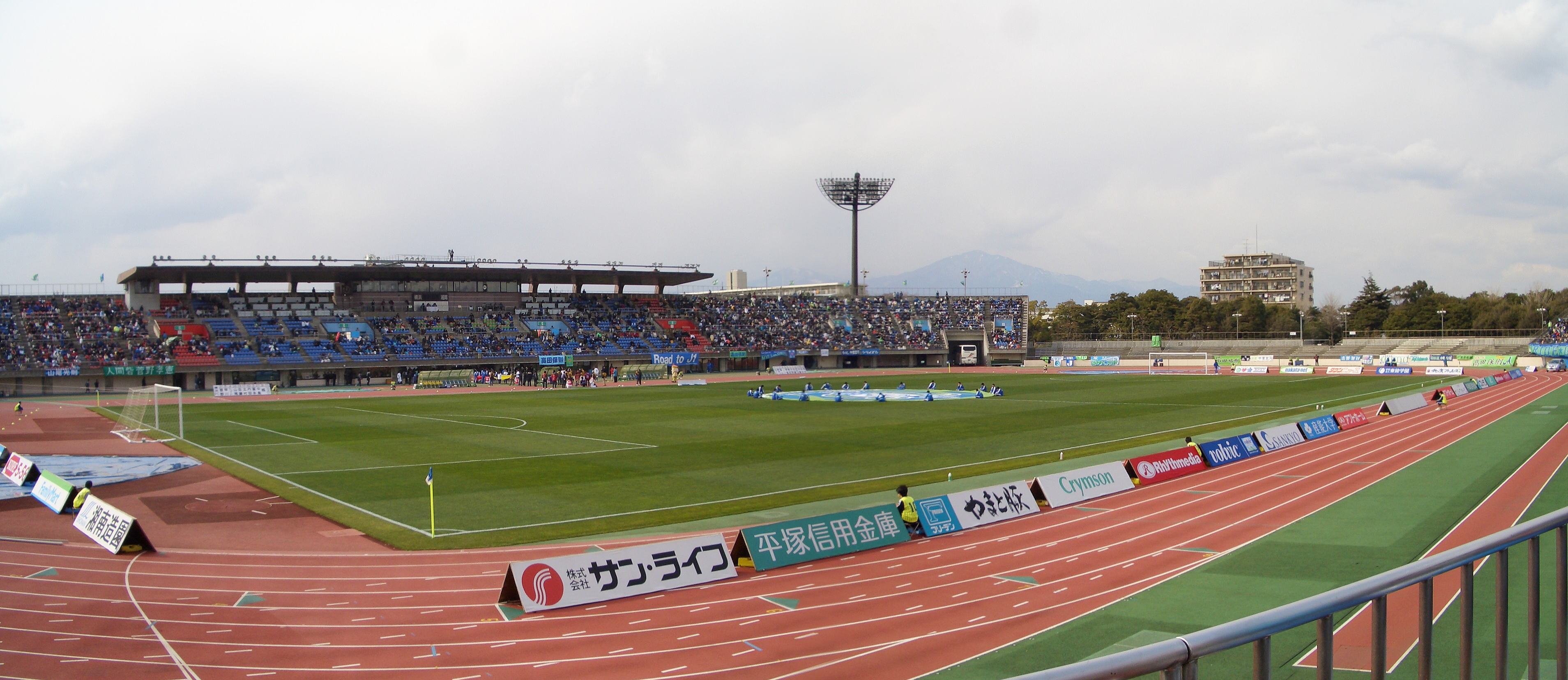 Hiratsuka Stadium. Hiratsuka City,Kanagawa pref,Japan